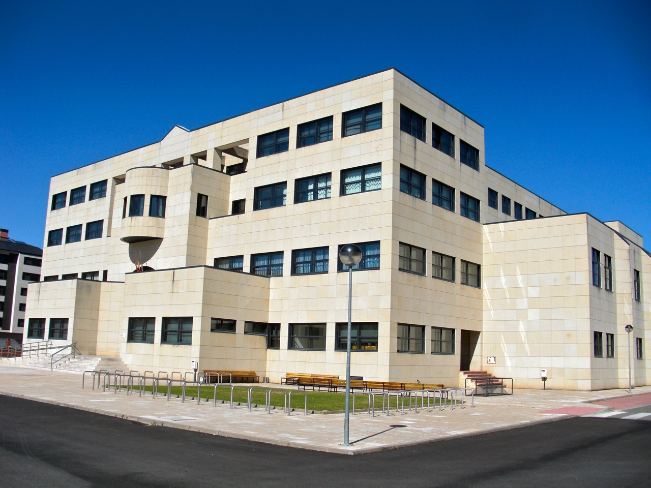 University of Burgos School of Humanities and Education